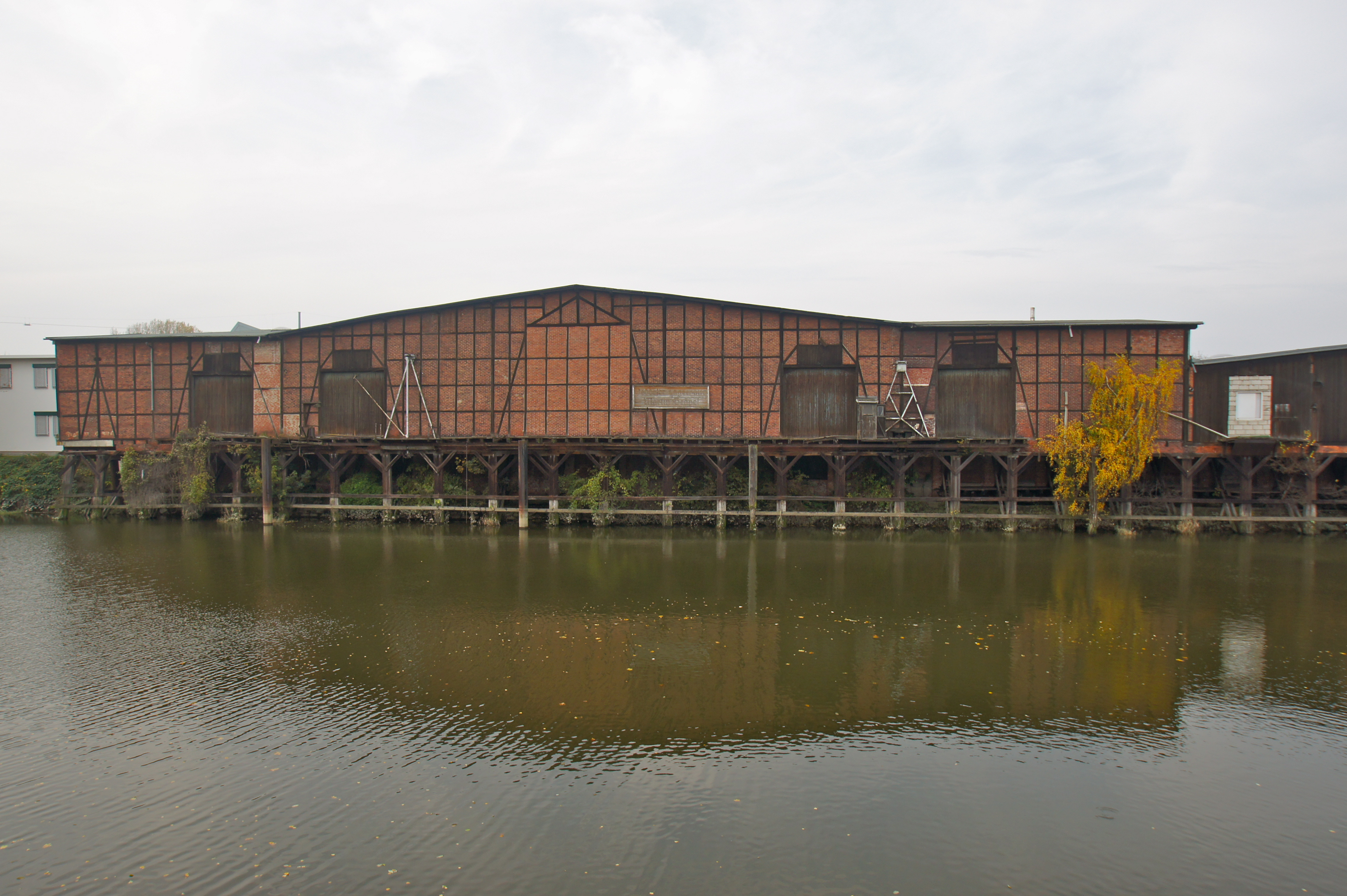 Hamburg (Veddel), Germany: Timber framed warehouse Martin Gräpel Lagerhouse